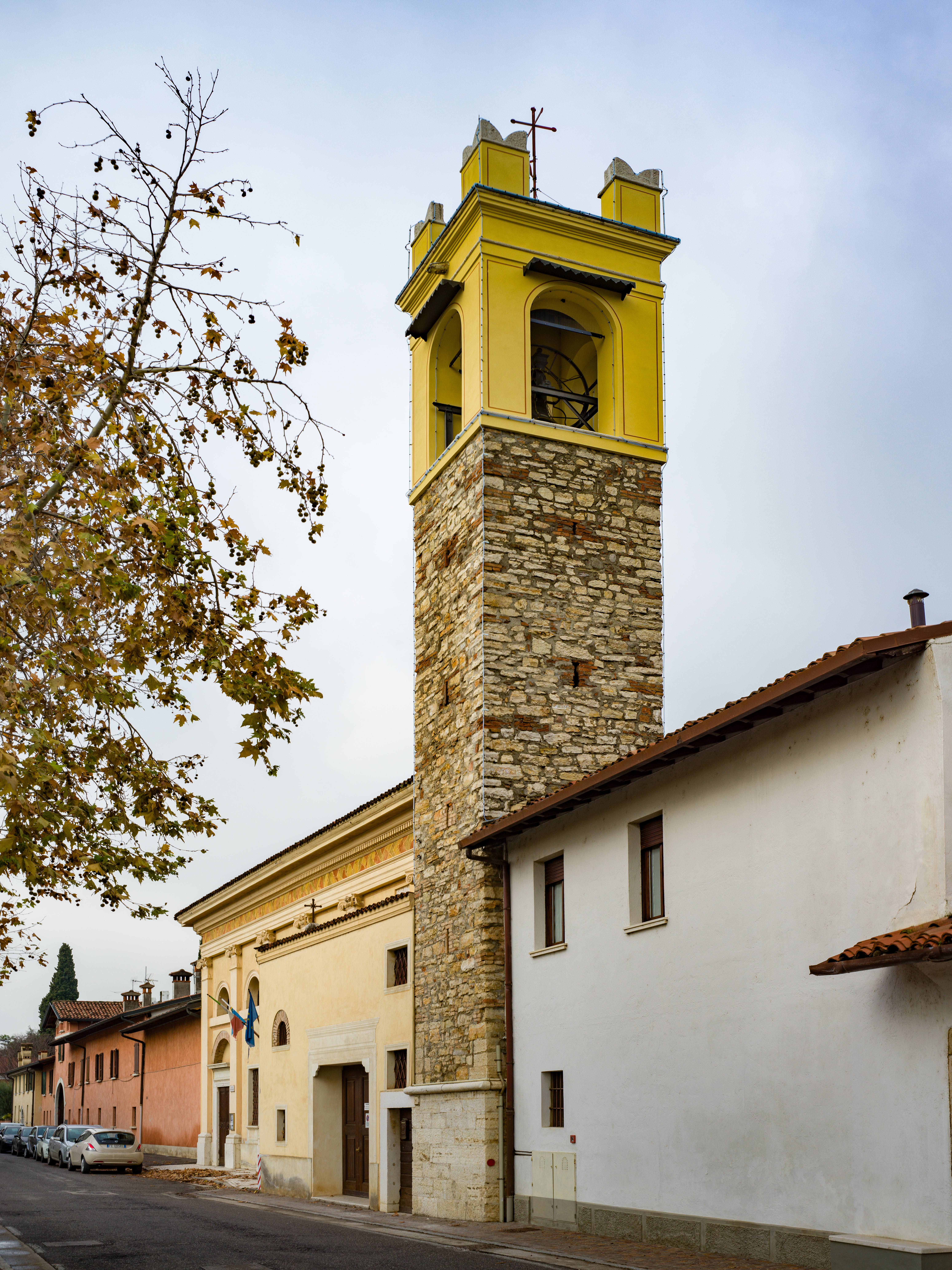 Santa Maria Bambina church in Brescia.